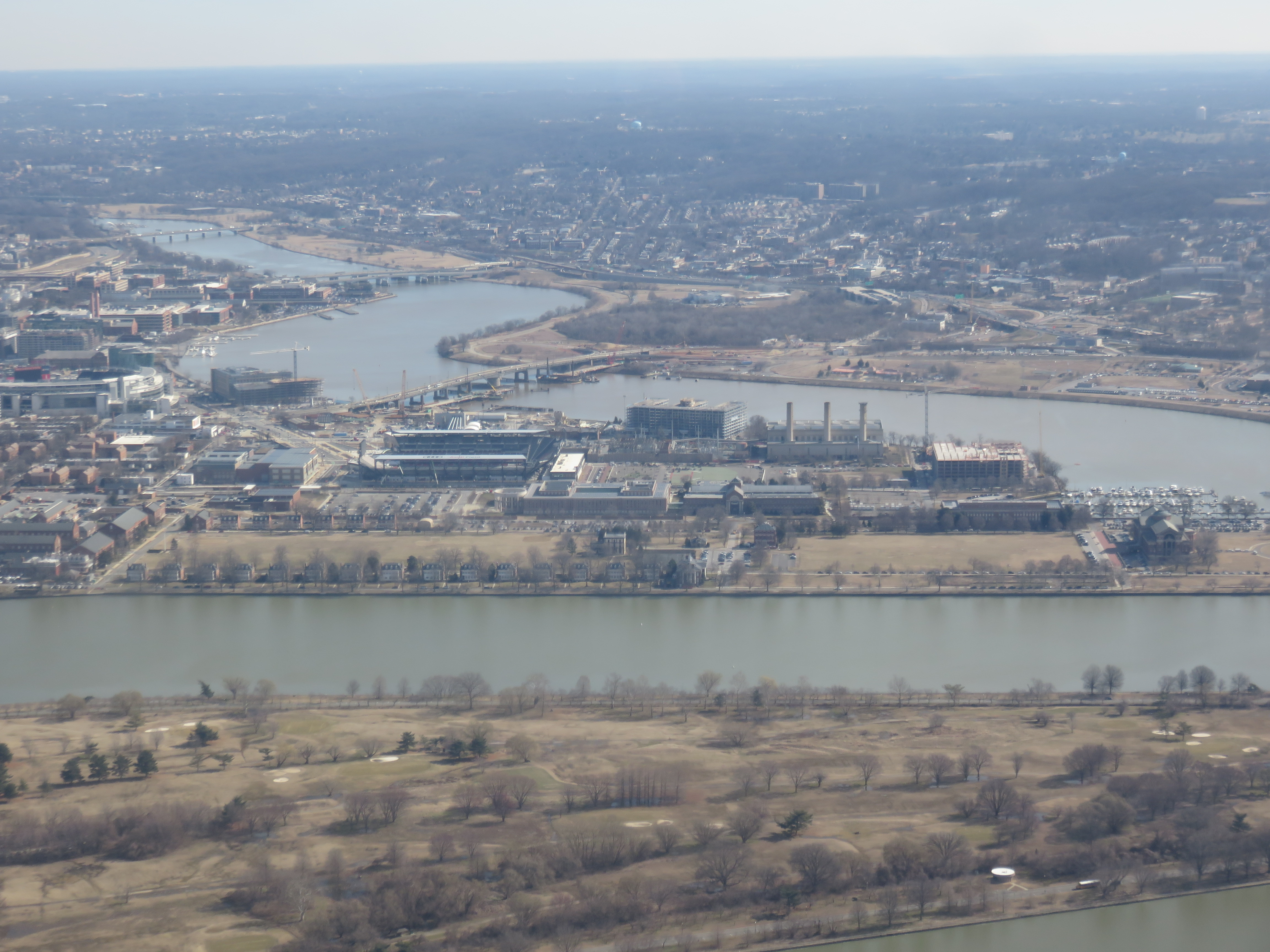 Aerial view of Fort Lesley J. McNair in Washington, DC in 2019